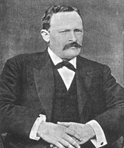 Thomas Horrocks Openshaw (1856-1929) in about 1902.